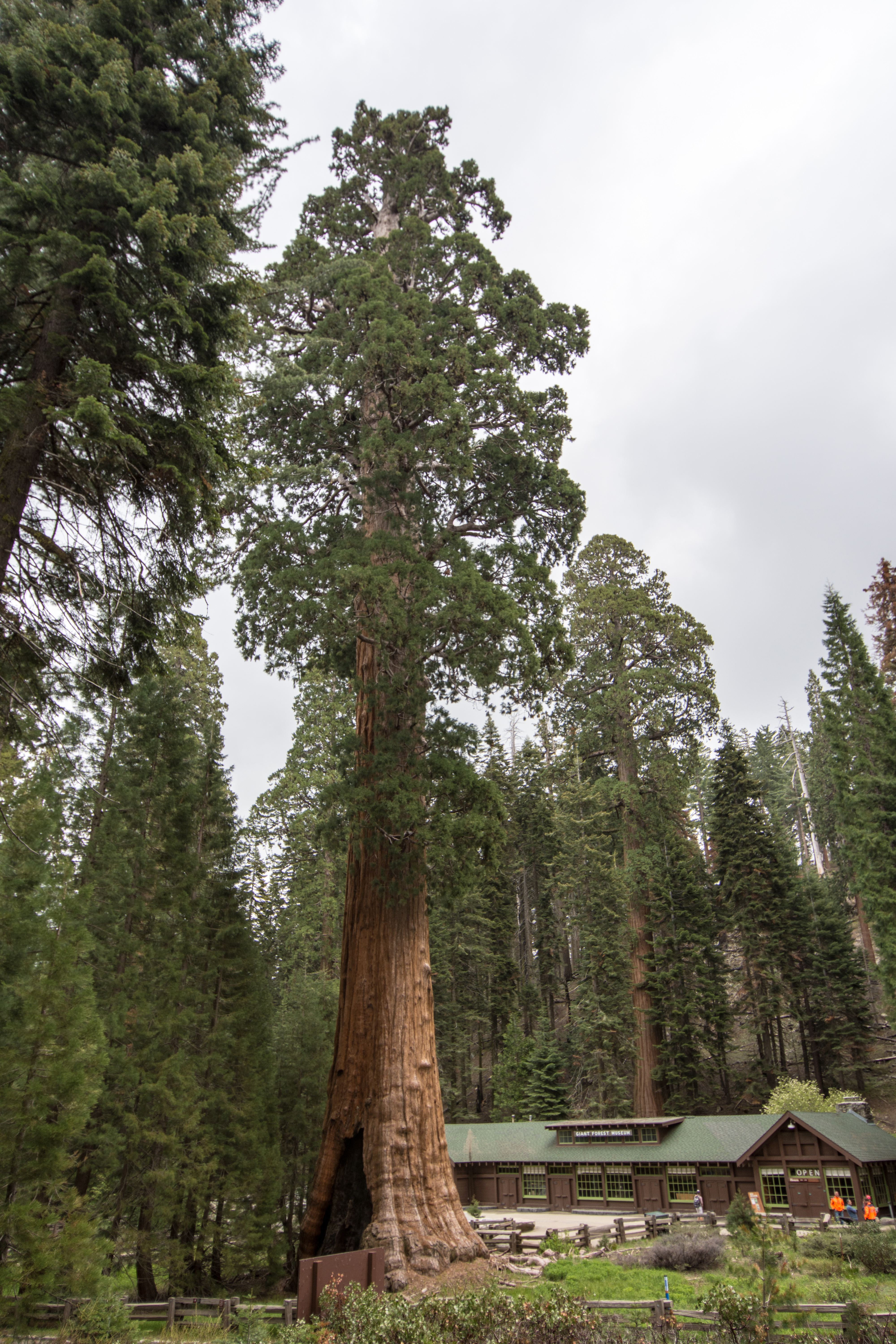 Sentinel tree - Sequoia National Park - May 2016